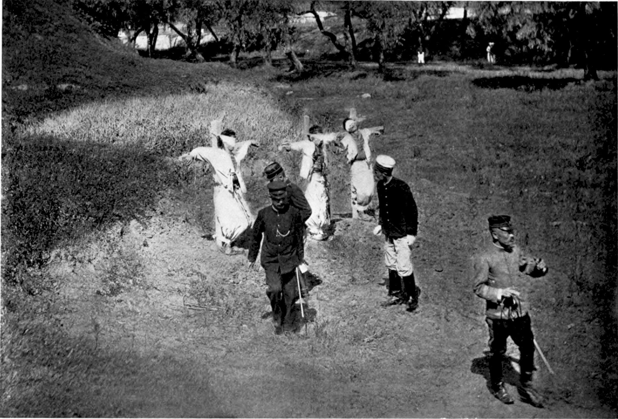 Martial law, Korea 1900s; p. 263. The passing of Korea (book)